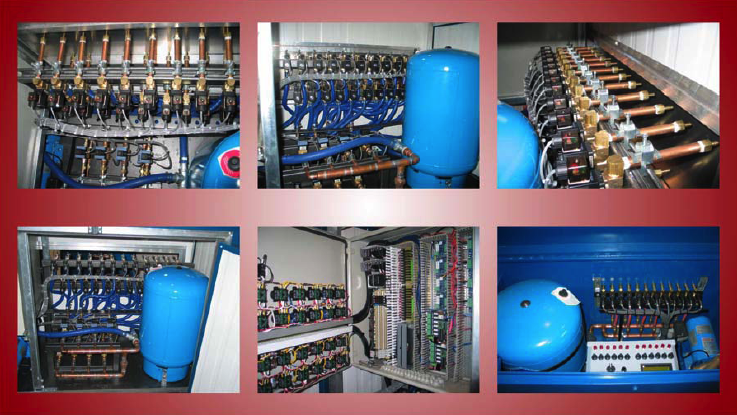 The ET-DSP™ water circulation system